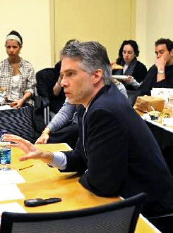 Professor Frederick Dickinson in March 2011 at a talk in the wake of the natural disasters in Japan.